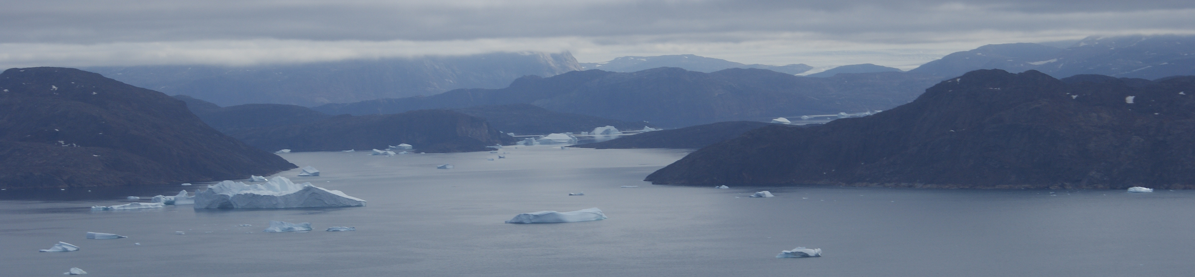 Aerial view of Mernoq Island and Mernup Tunua Strait, Tasiusaq Bay, Upernavik Archipelago, Greenland. Photographed in very poor visibility conditions from the Air Greenland Bell 212 helicopter during the Upernavik-Kullorsuaq flight.